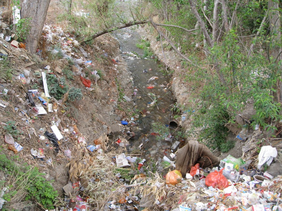 This is an example of plastic pollution in a small creek. The plastic clogs up the creek, and rests on the soil among the plants.